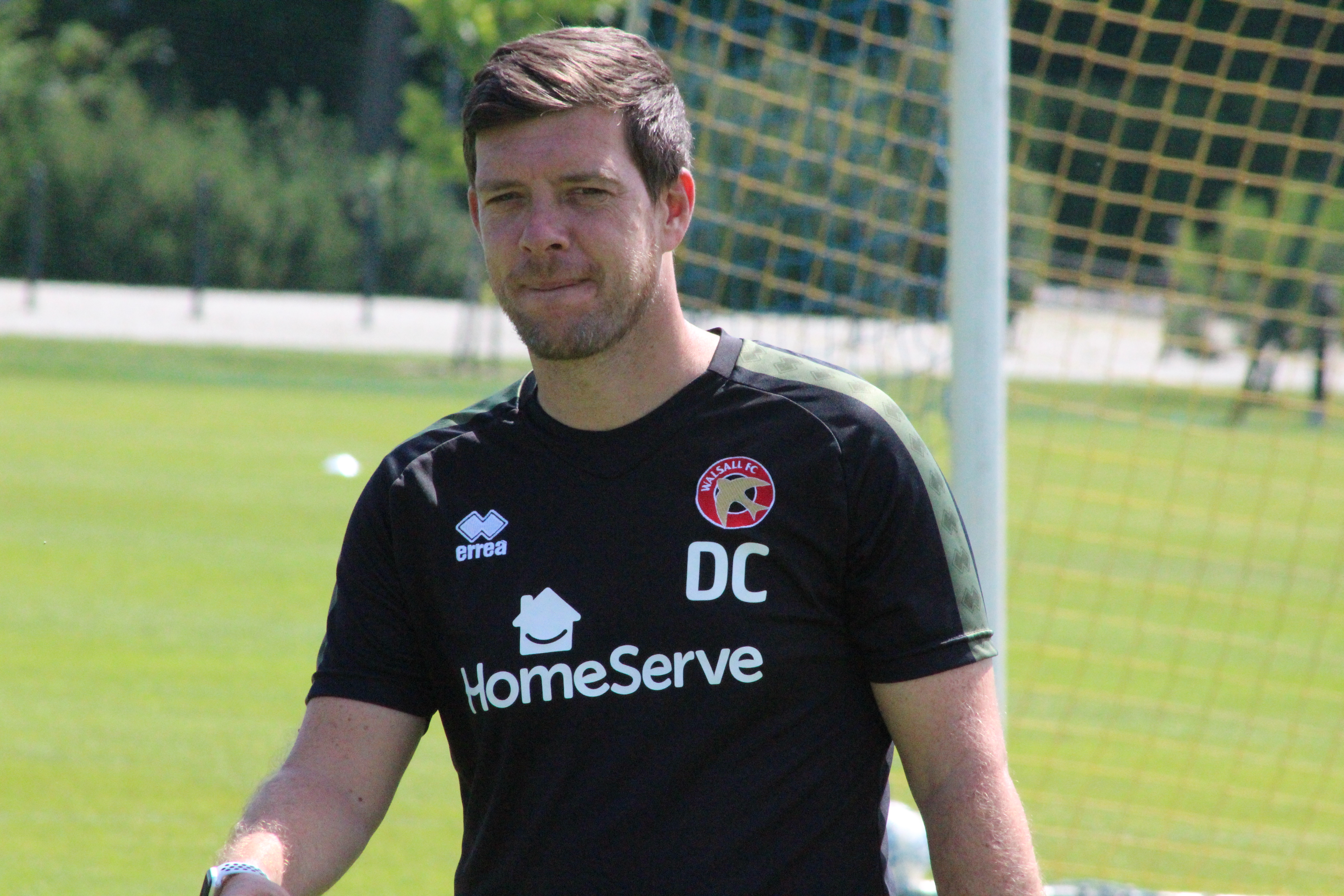 Walsall boss Darrell Clarke looks ahead to a preseason training session whilst his team are out on tour in Poland